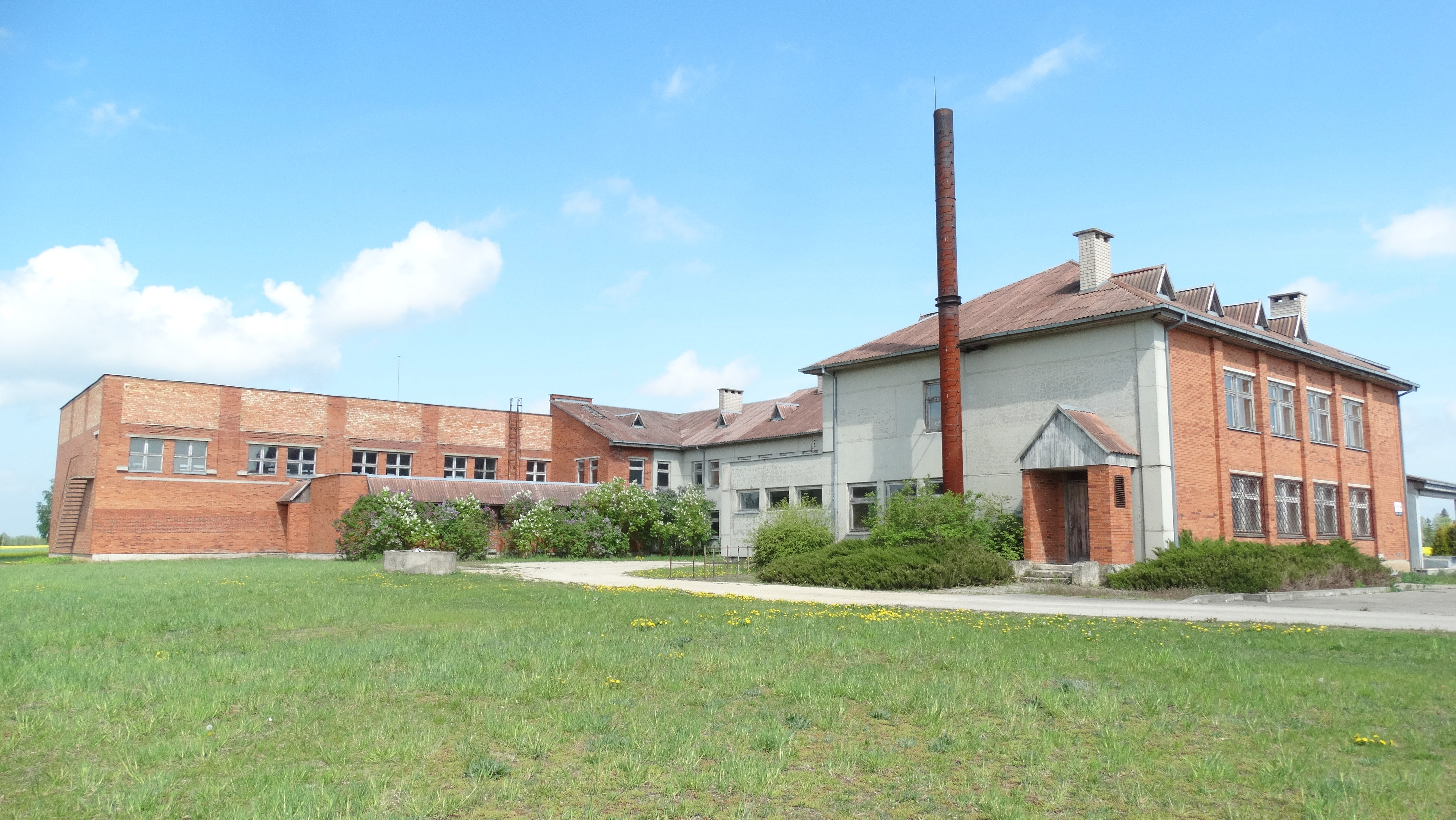 Former school, Bardiškiai, Pakruojis district, Lithuania